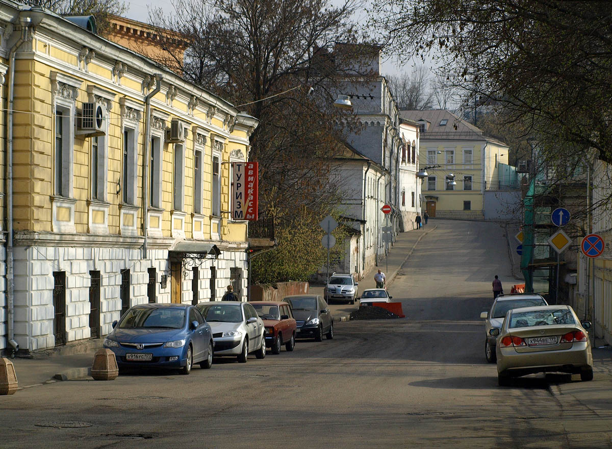 Khokhlovsky Lane, Moscow (view from no.5, left, eastward).